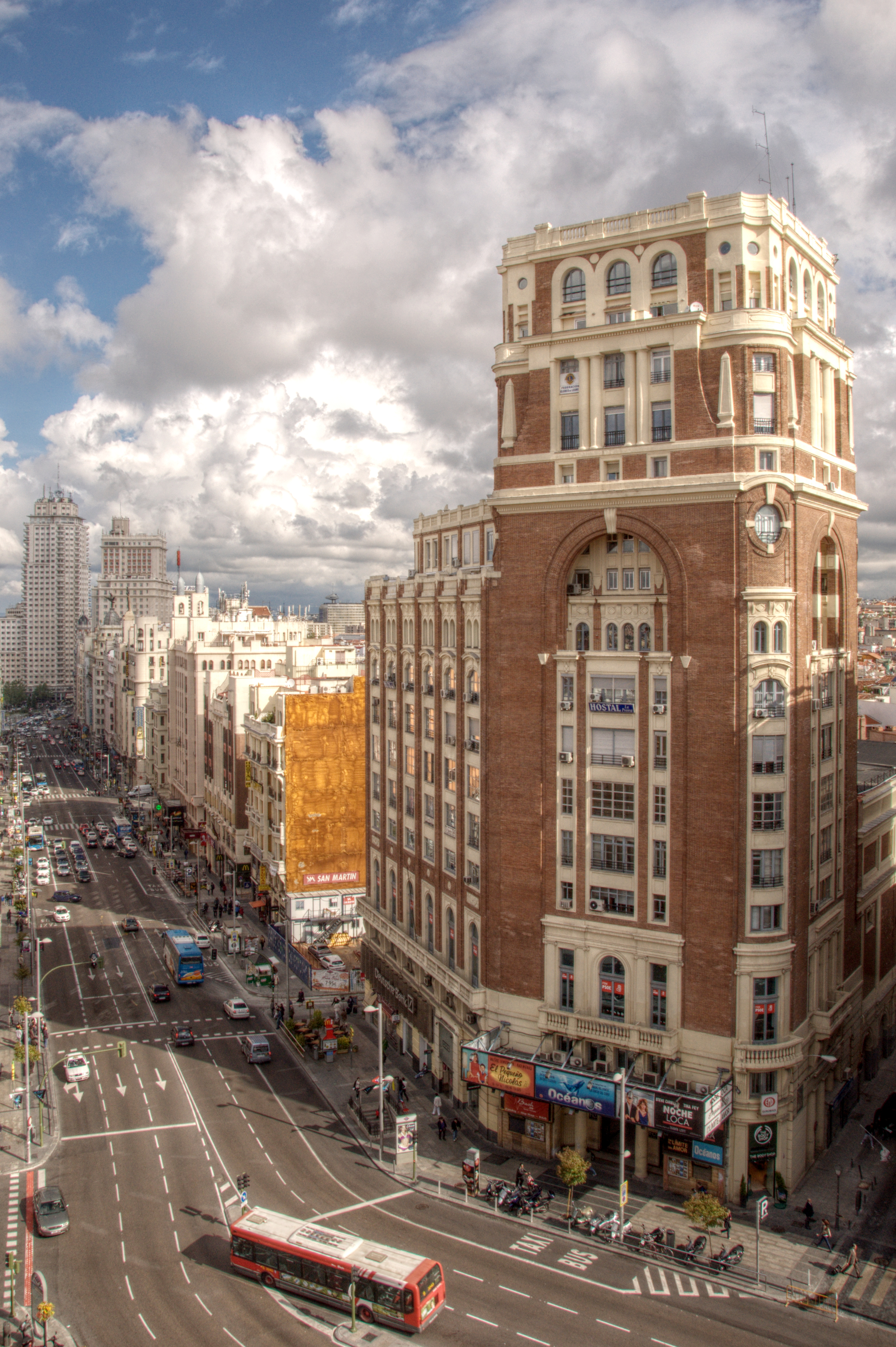 In the foreground the Palacio de la Prensa building. At bottom left the Torre de Madrid building. The "Palacio de la Prensa" building was designed, with New York-style, by architect Pedro Muguruza Otaño to be the headquarters of the Press Association of Madrid. The first stone was laid by King Alfonso XIII on July 11, 1925. Three years and a half later, on January 2, 1929, was inaugurated with the screening of the movie "The fate of the flesh." Designed as a multifunctional building housed a cafe concert, cinema, rental homes and offices, and at a cost of eight million pesetas (48,000 euros). With a capacity of 1840 places, sometimes worked as a theater with a small stage. In 1941, the architect Enrique López-Izquierdo again renovated the building, while in 1991 a new reform was made for conversion into multiplexes site.